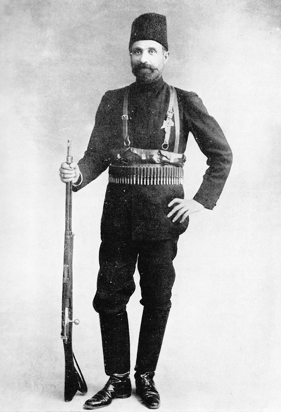 Yeprem Khan Davidian, Chief of Police, Tehran, Iran.